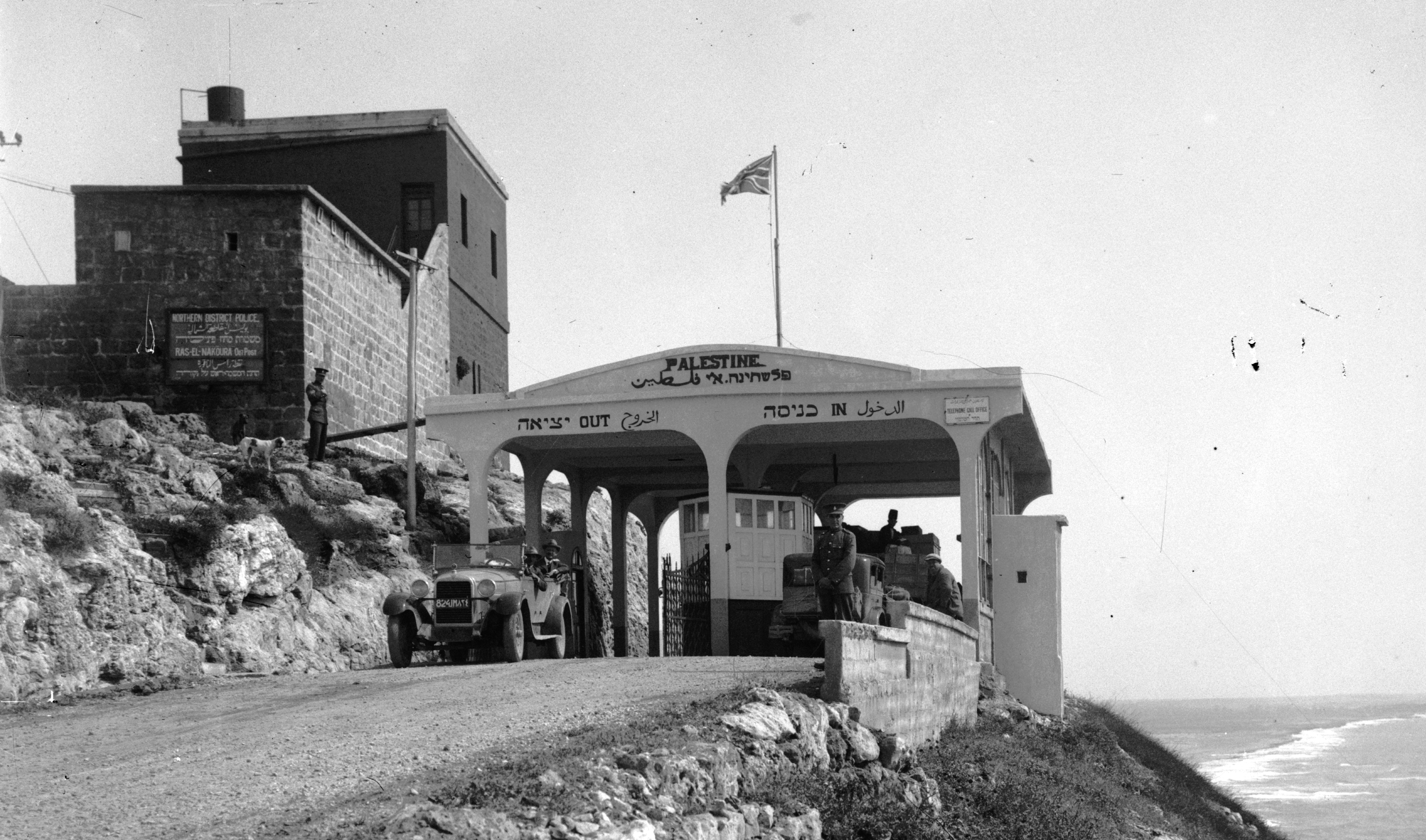 Akka (Acre, Accho). Nakura. The gateway to Palestine. British frontier post on the seacoast